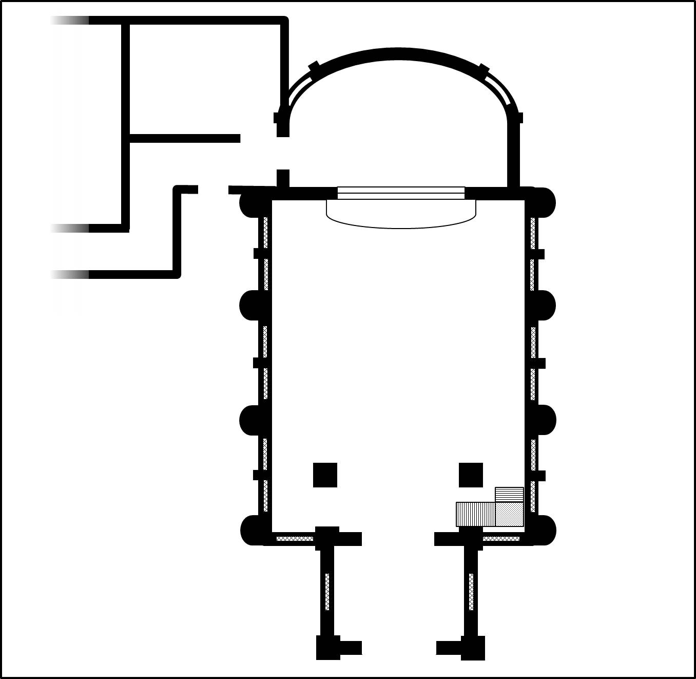 Plan of the church in Durdenovac, Croatia